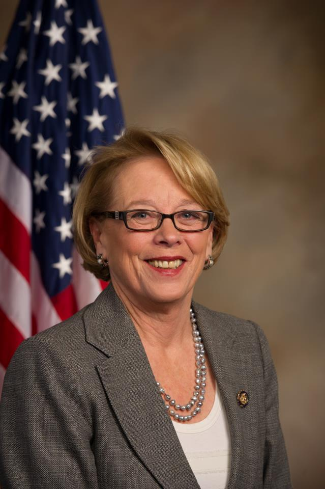 Niki Tsongas official 2013 portrait.